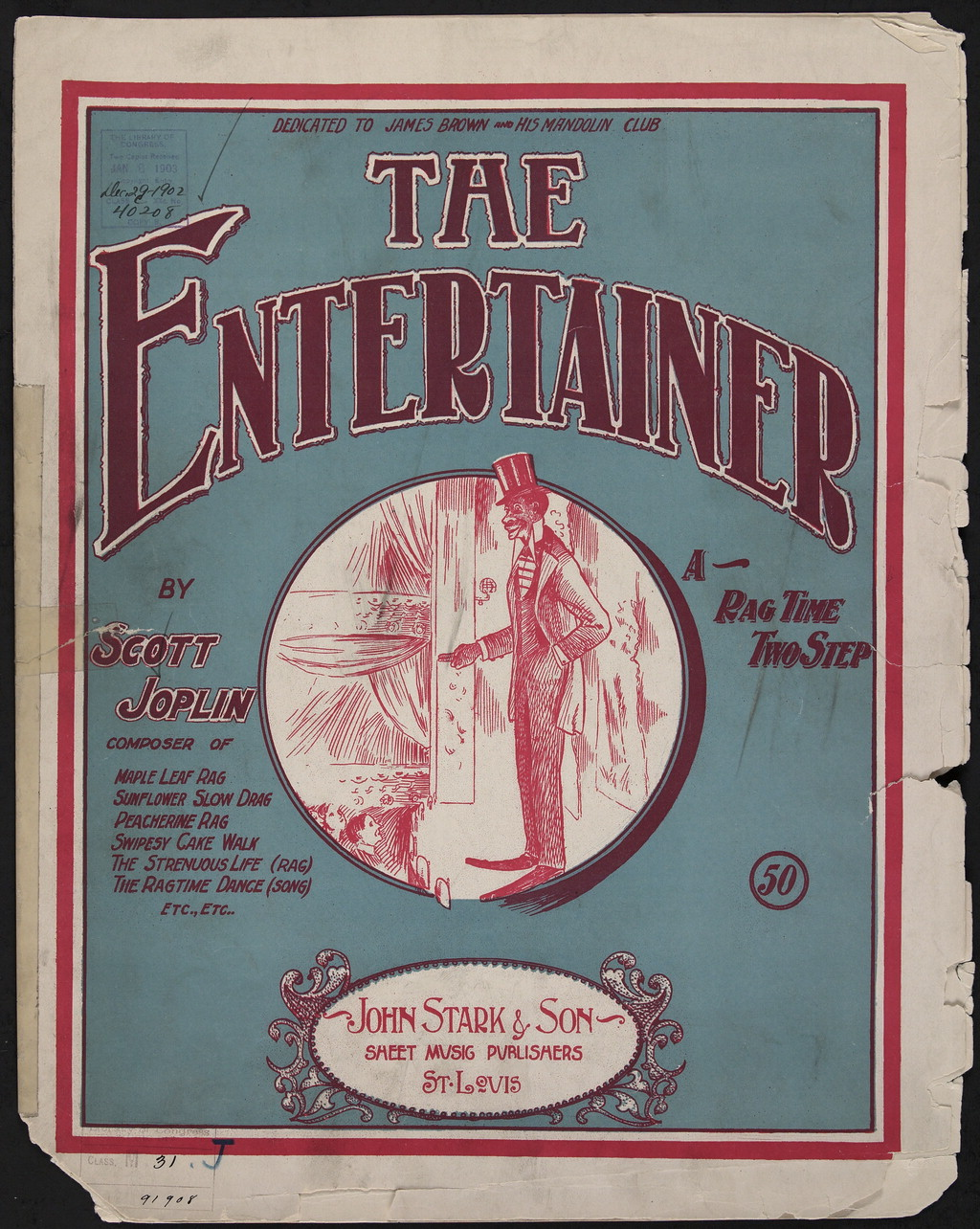 "The Entertainer" (sheet music) Page 1 of 5